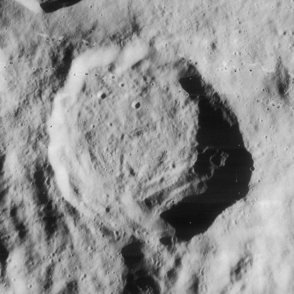 Shaler, on the moon. Rows of spots along top are blemishes on original.